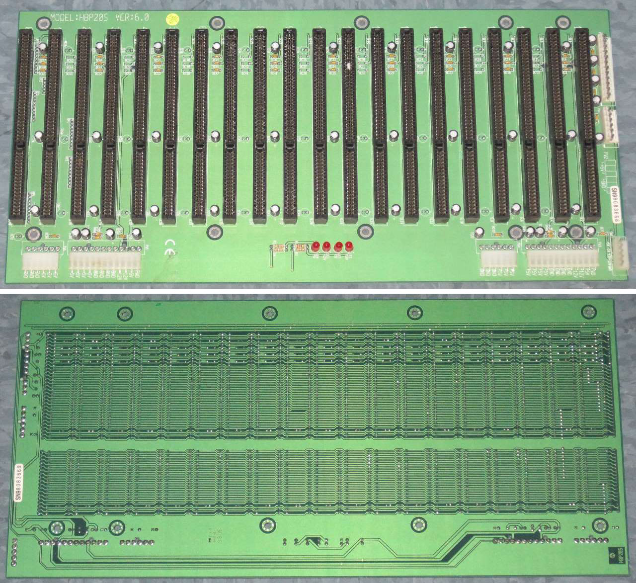 20 Slot ISA backplane. Front side showing connectors and back side showing signal traces. Author: David Lippincott for Chassis Plans URL